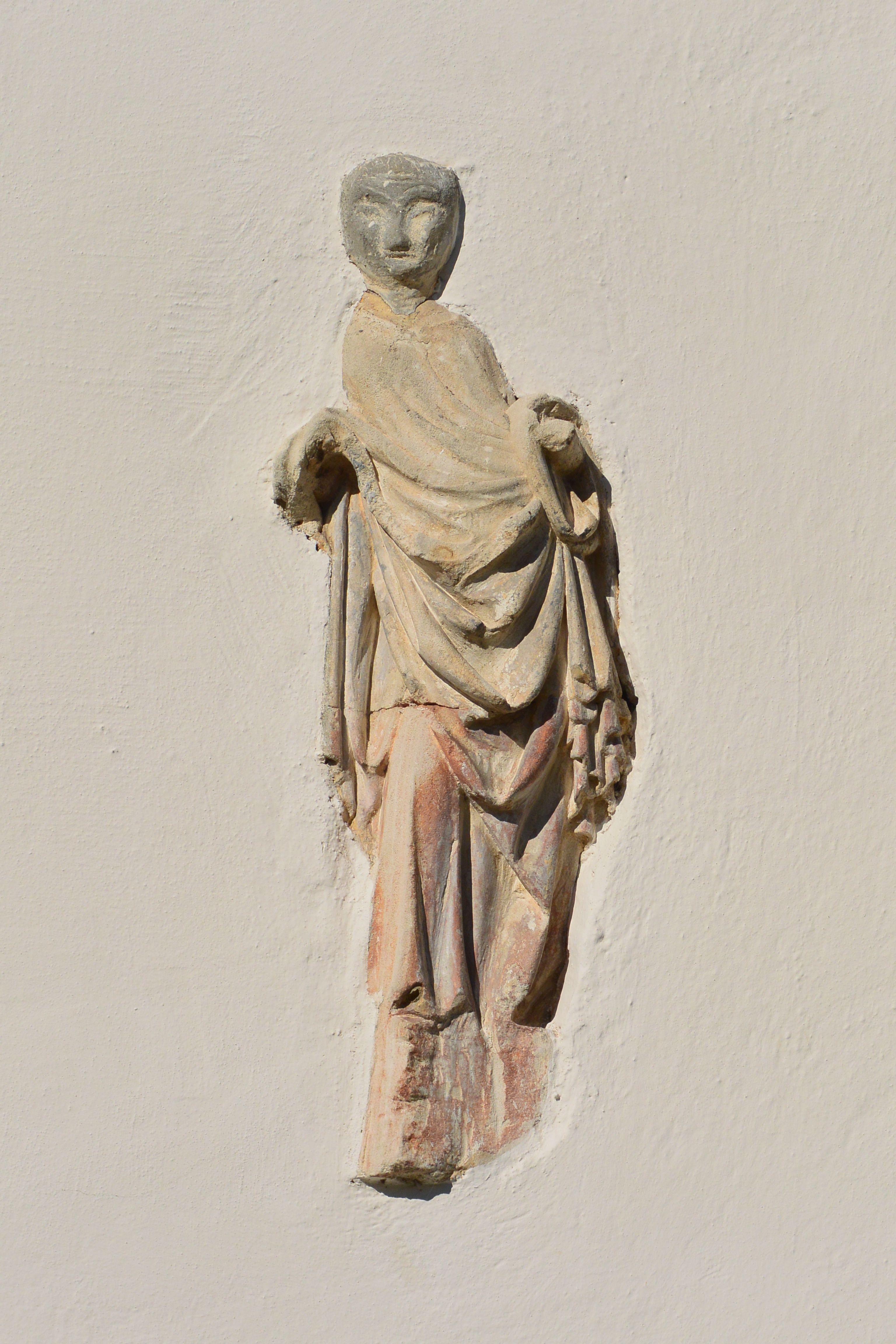 Parish-church in Gottestal in the Community of Wernberg